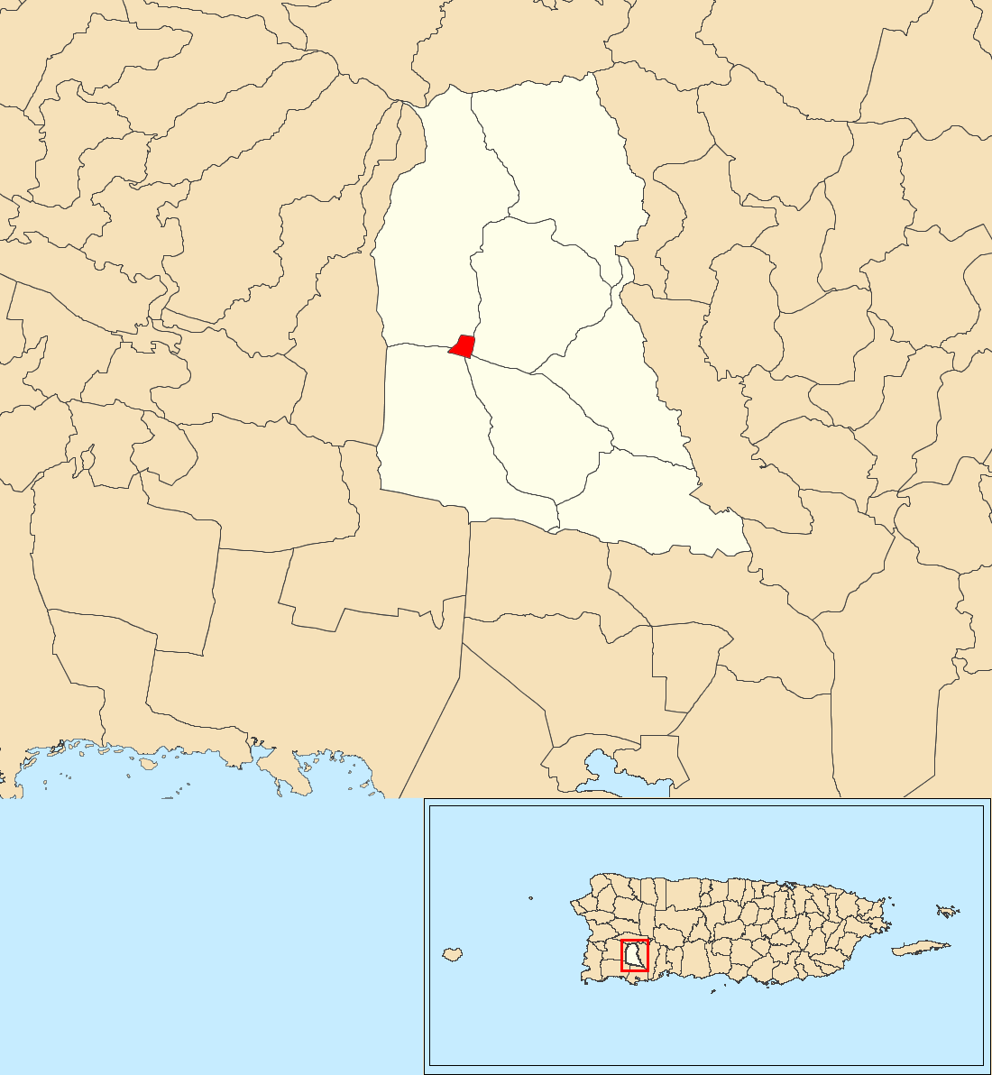 Sabana Grande barrio-pueblo, Sabana Grande, Puerto Rico locator map